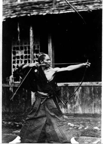 Japanese archer 弓道 Kyudo 弓術 Kyujutsu